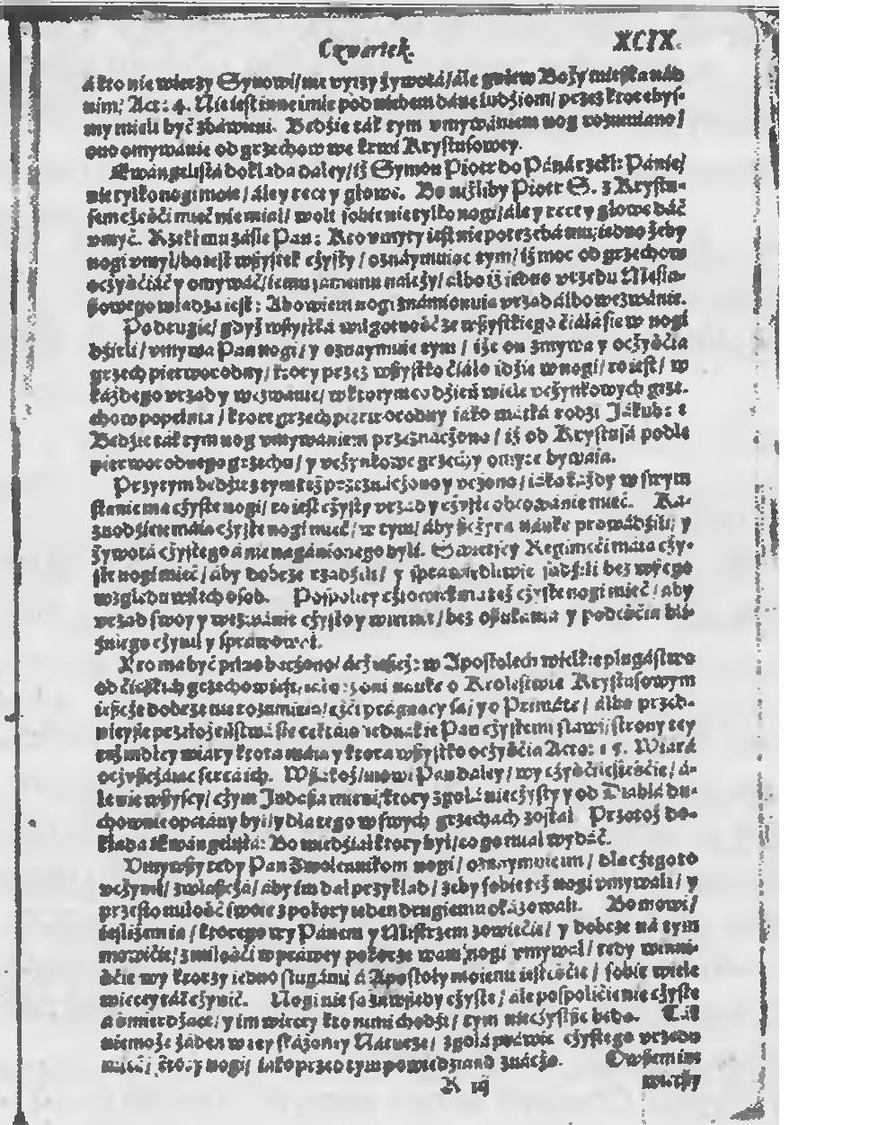 Scan of page from Postylla by Jan Kalkstein. Printed in Toruń (Poland) in 1594